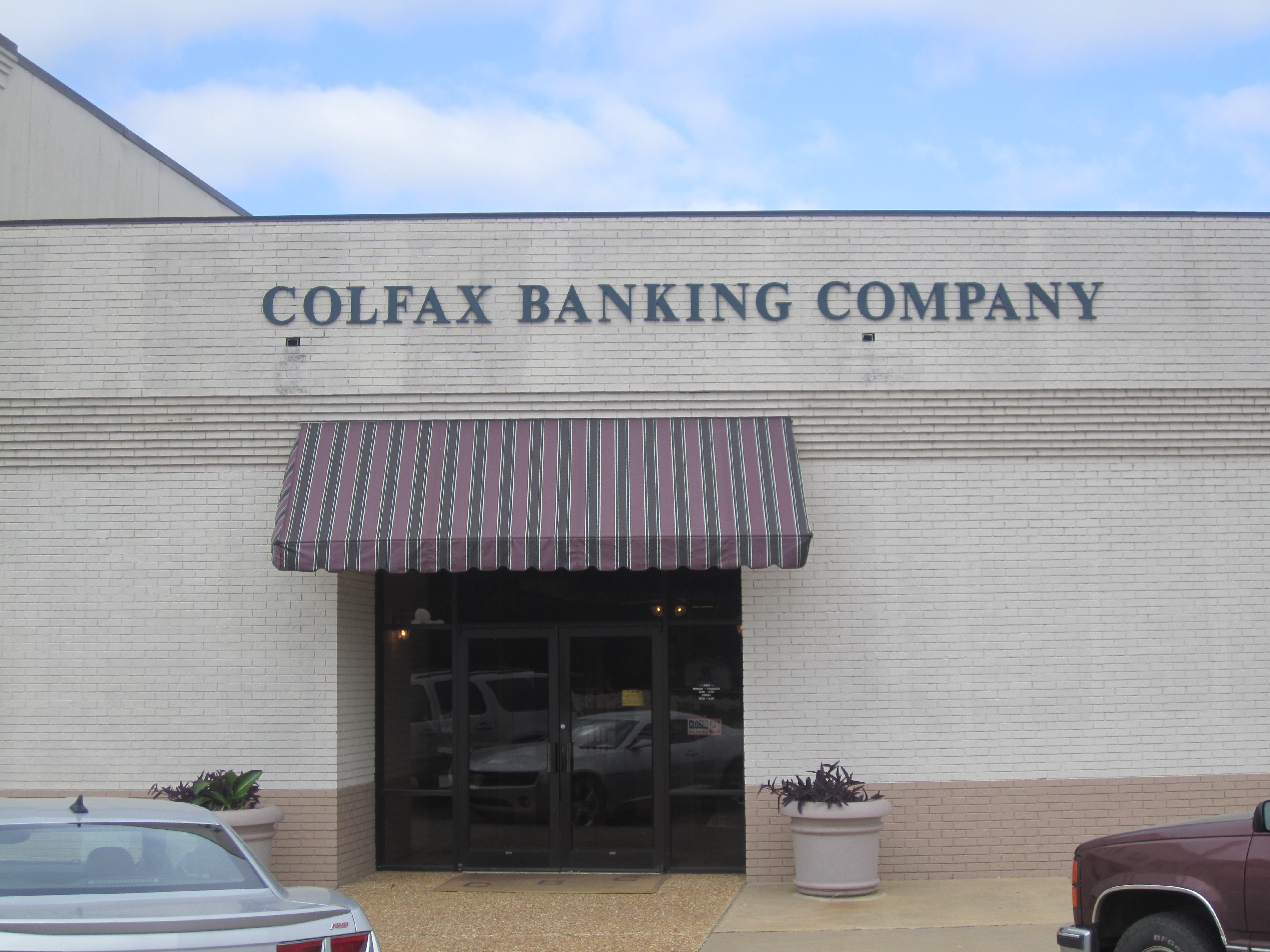 I took photo of Colfax Banking Co. in Colfax, LA, with Canon camera.